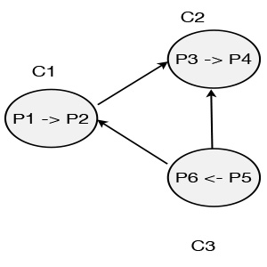 descibes a distributed deadlock